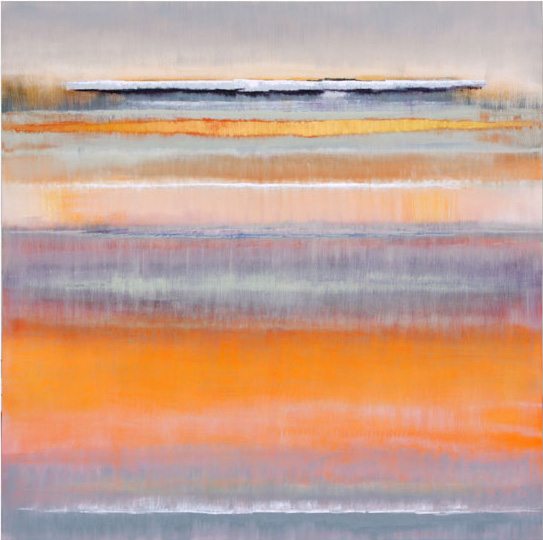 abstract landscape